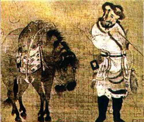 A Jurchen man and his horse